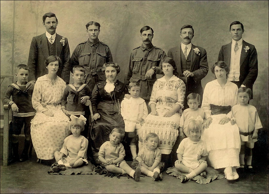 A portrait of the Doig family, an Australian sporting family. Top row: "Scotty" Doig, "Cleve" Doig, Norman Doig, Sr., "Hooky" Doig, Charles Doig, Sr. Middle row: Jim Doig, Margaret Elder Doig, Ron Doig, Sr., Agnes Robertson Doig, Norman Doig, Jr., Mary Fraser Doig, George Doig, Isabella Doig, Charles Doig, Jr. Front row: Mary Fraser Doig II, Billy Doig, Edgar Doig, Linda May Doig.